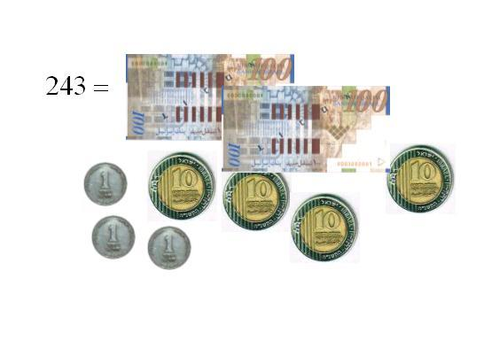 using money as represintation of decimal counting system